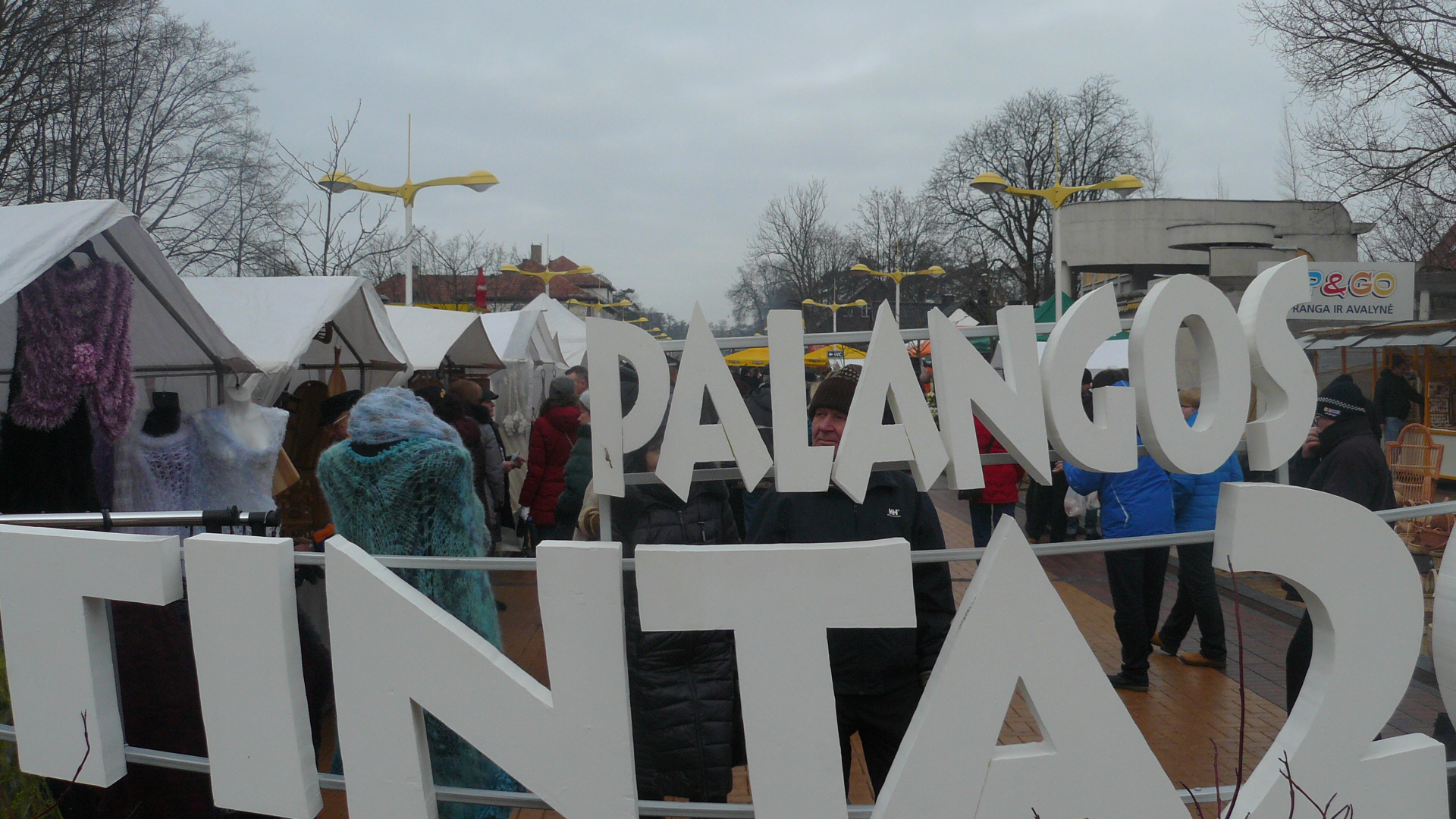 Palanga 2014